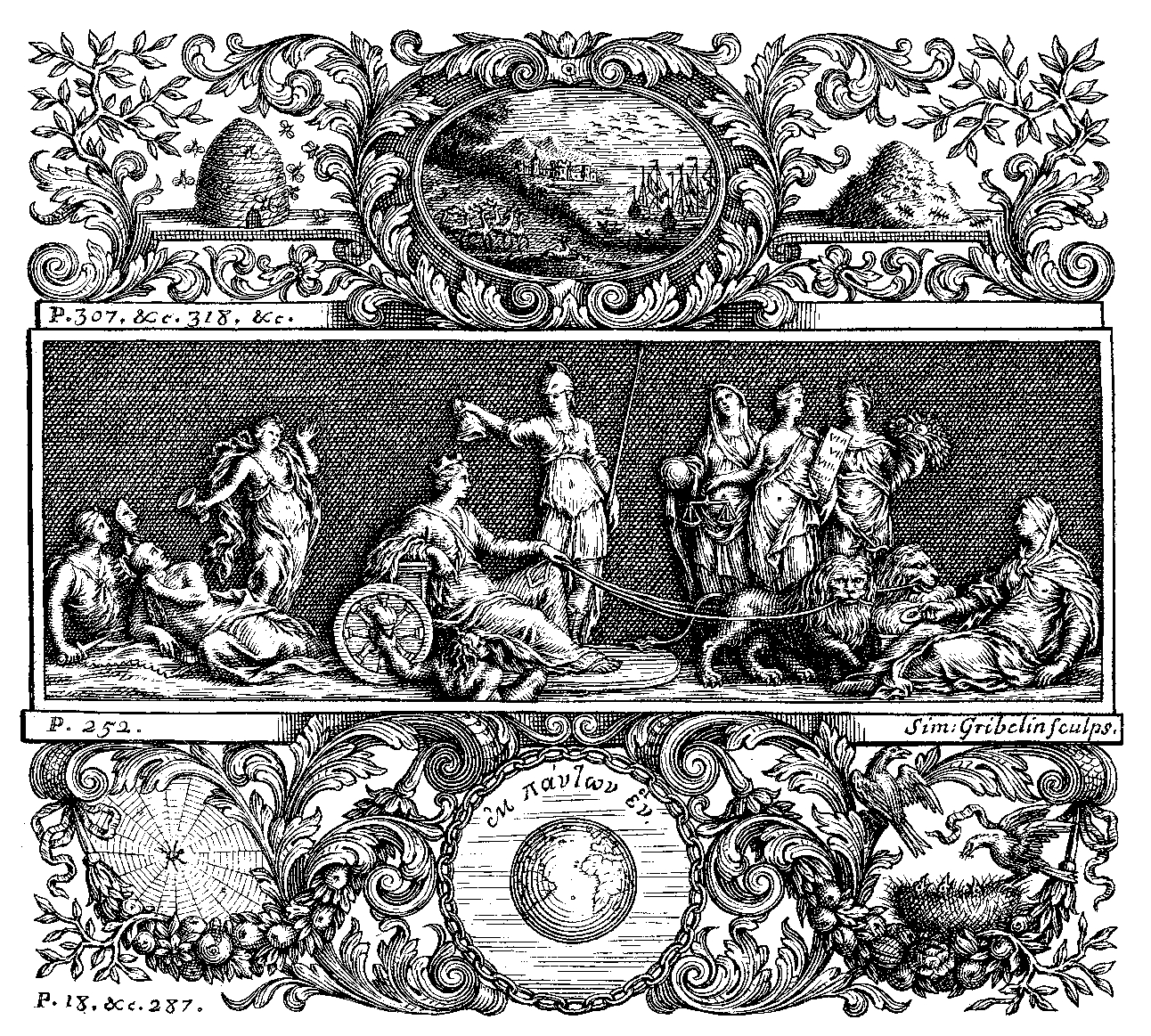 The emblem engraved for the frontispiece of the second volume of Lord Shaftesbury's Characteristicks of Men, Manners, Opinions, Times according to the author's instructions.